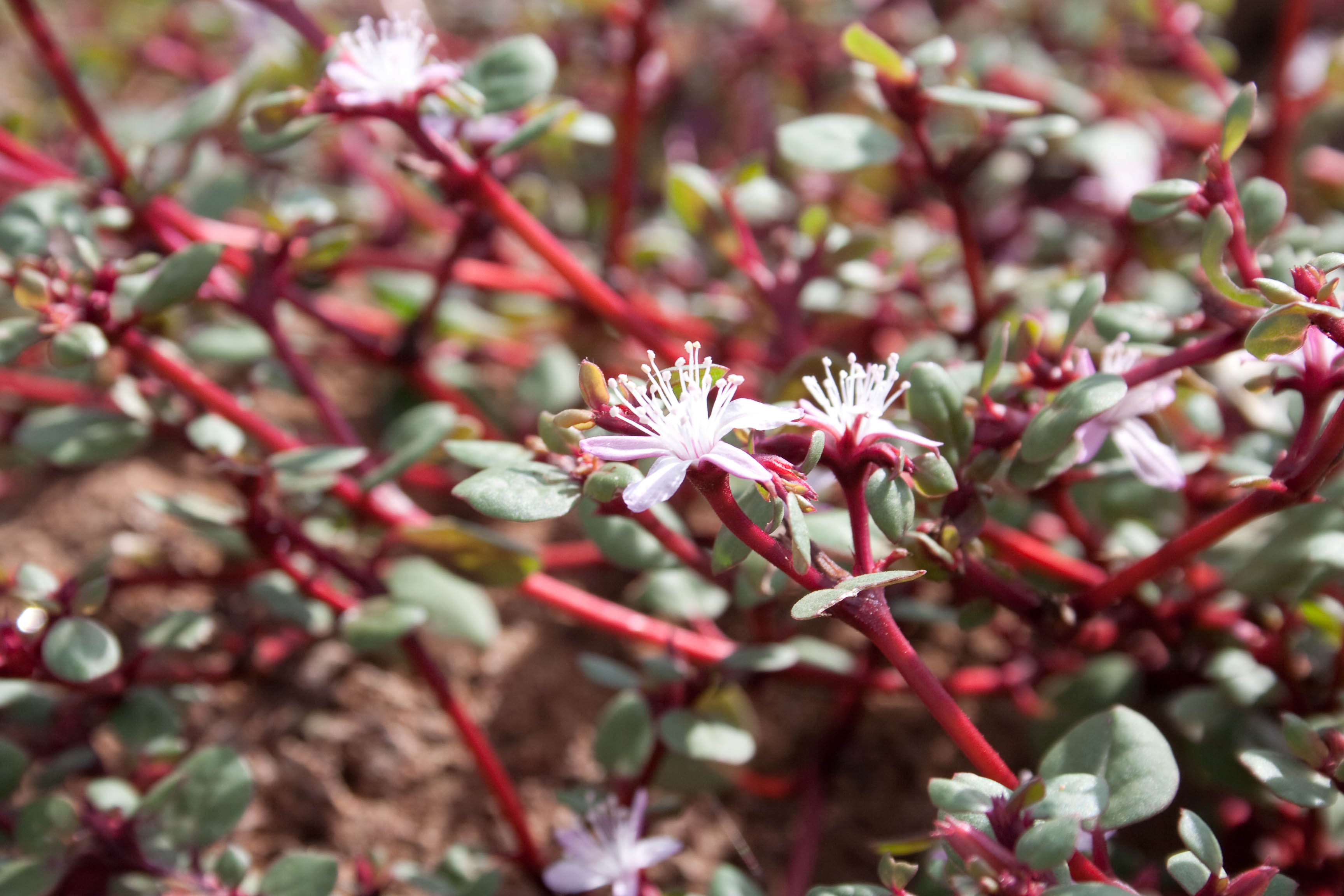 Trianthema portulacastrum in the Galapagos Islands